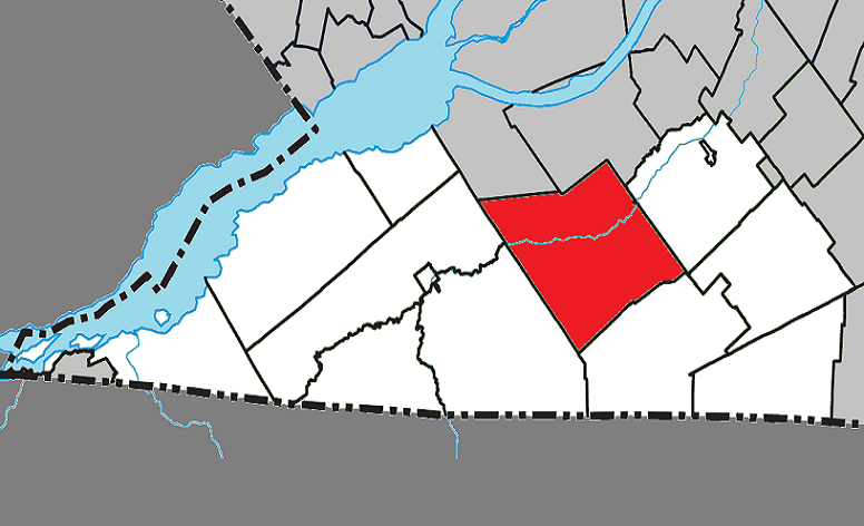 Location of Ormstown, Quebec within Le Haut-Saint-Laurent Regional County Municipality.